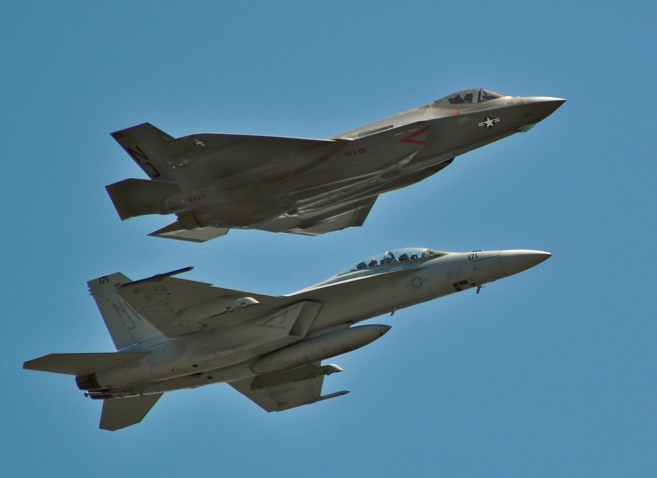 U.S. Navy Lt. Cmdr. Christopher Tabert, F-35C instructor pilot of Strike Fighter Squadron 101 (VFA-101) flies in formation with a Boeing F/A-18F Super Hornet of VFA-122 prior to landing at Eglin Air Force Base, Florida (USA) on 22 June 2013. VFA-101 received the Navy's first F-35C Lightning II carrier variant aircraft from Lockheed Martin and serves as the F-35C Fleet Replacement Squadron, training both aircrew and maintenance personnel to fly and repair the F-35C.